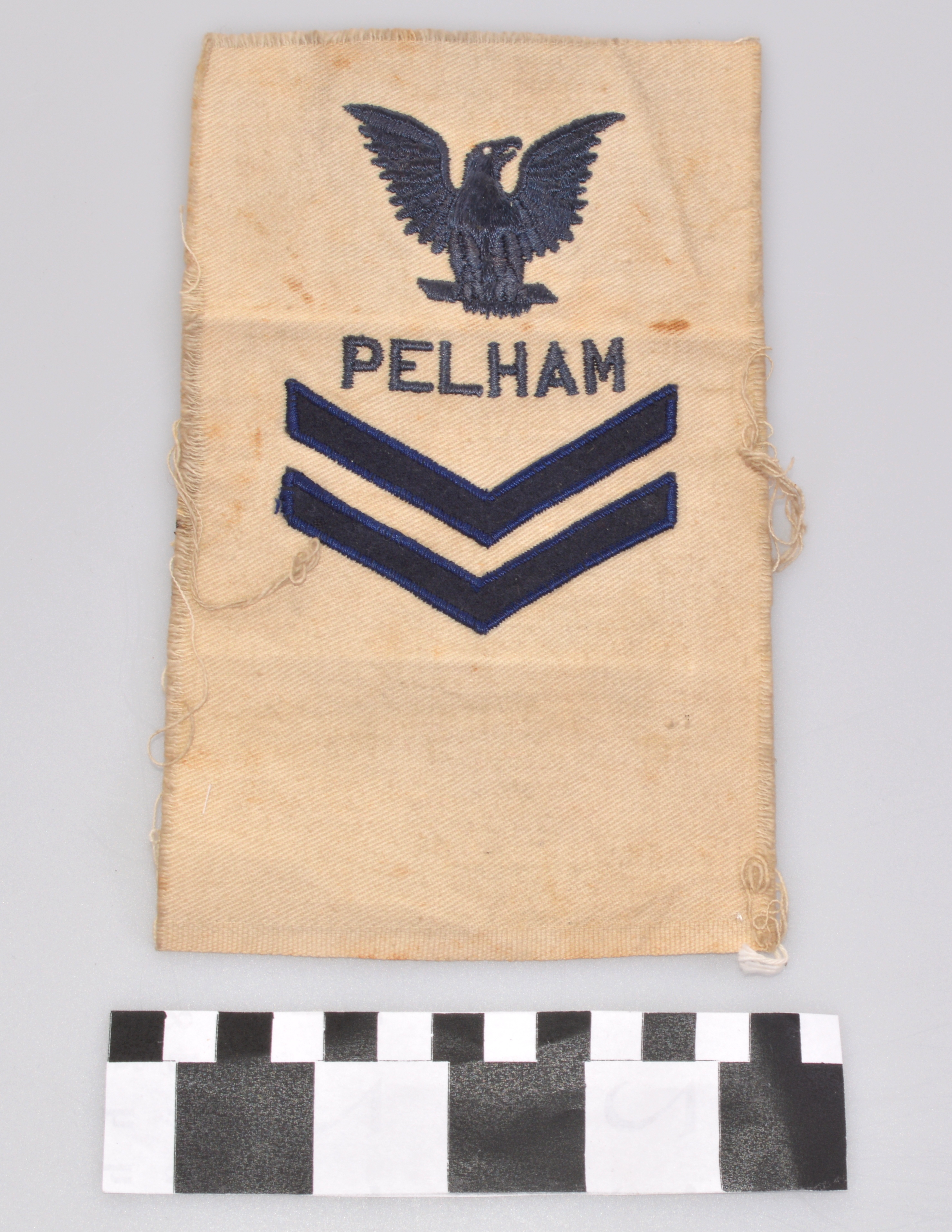 Military cotton patch of white twill with navy blue embroidery of an eagle, the word "PELHAM" and two downward pointing chevrons. Worn by Fred Dedert while he was stationed at Pelham Bay Park Naval Station during World War I.Title: World War I Pelham Bay Park Navy Second Class Patch of Fred Dedert